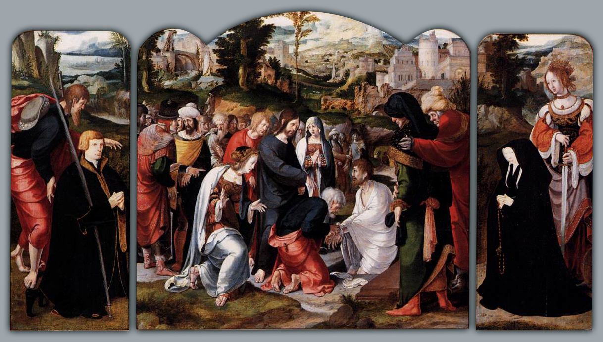 Triptych commemorating a married couple, the man and woman shown kneeling on the wings with their patron saints James and Catherine. The central panel depicts the miracle of Christ raising Lazarus from the dead, an allusion to the promise of eternal life and the belief that death is overcome through faith in Christ.